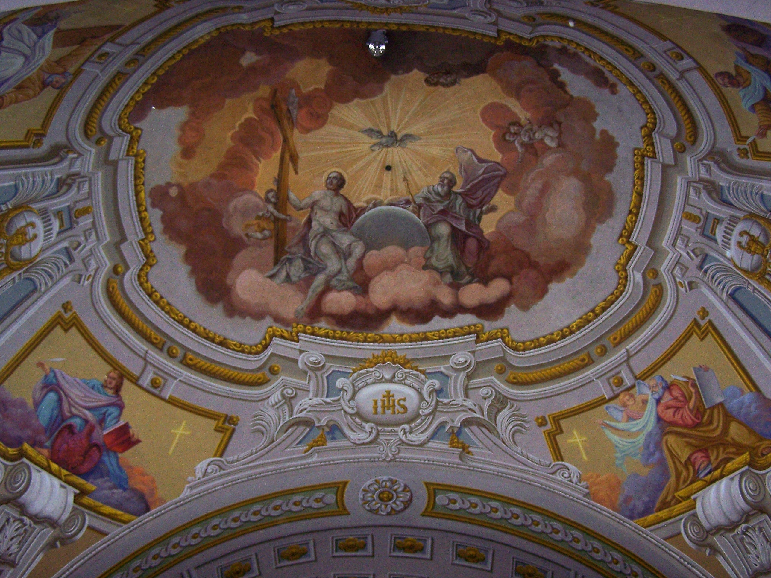 Catholic church of Rákoscsaba, Budapest (Hungary)